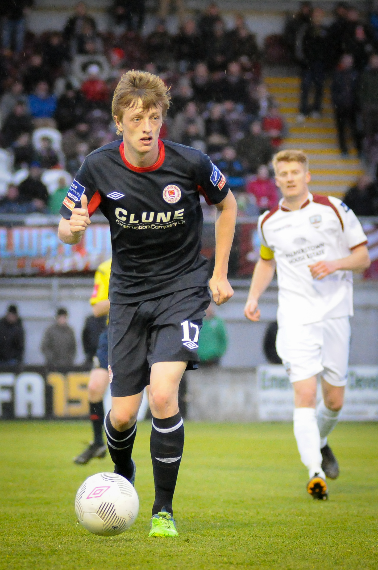 Chris Forrester in action for St Patrick's Athletic against Galway United